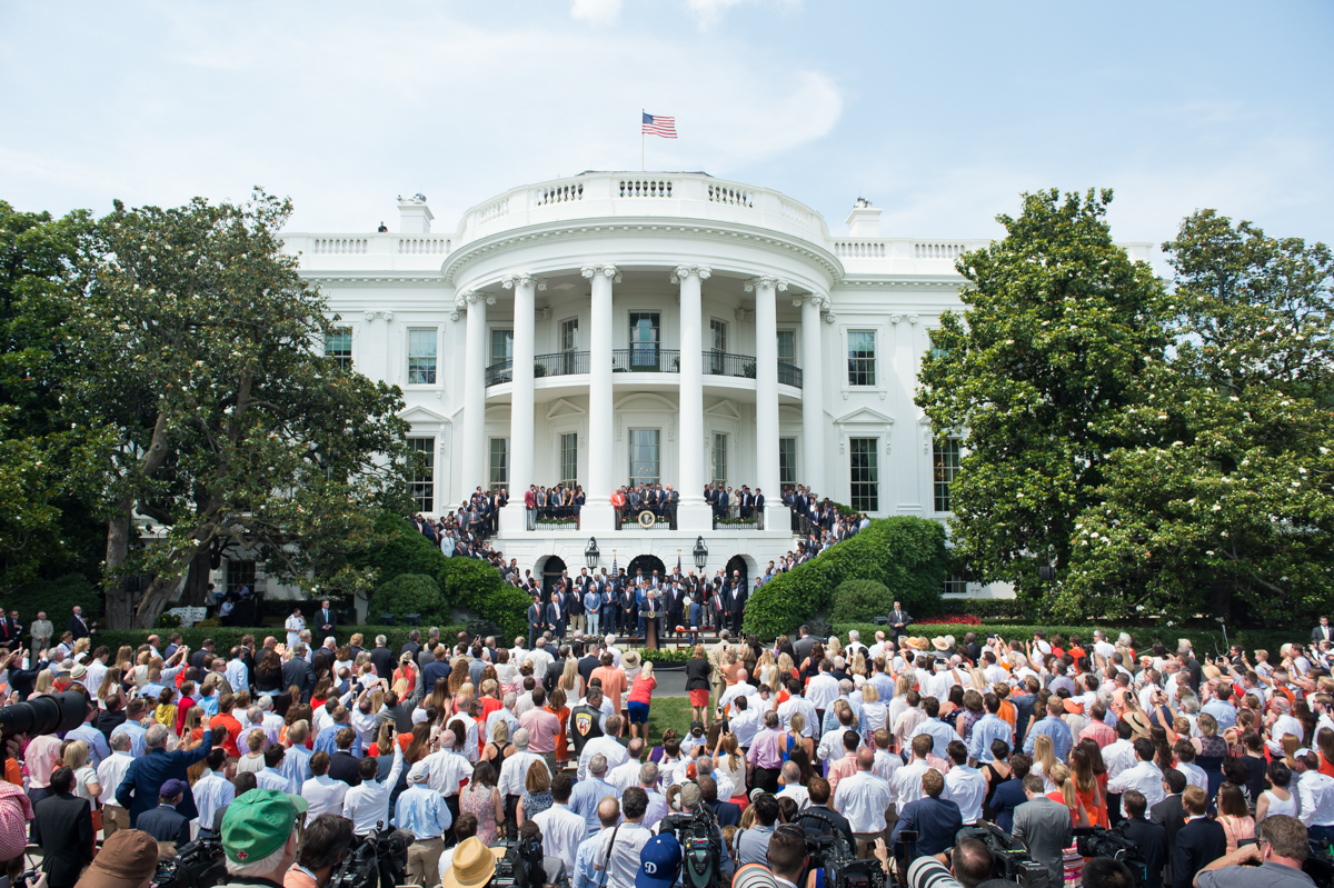 The 2016 NCAA Football National Champions, the Clemson Tigers | June 12, 2017 (Official White House Photo by Andrea Hanks)